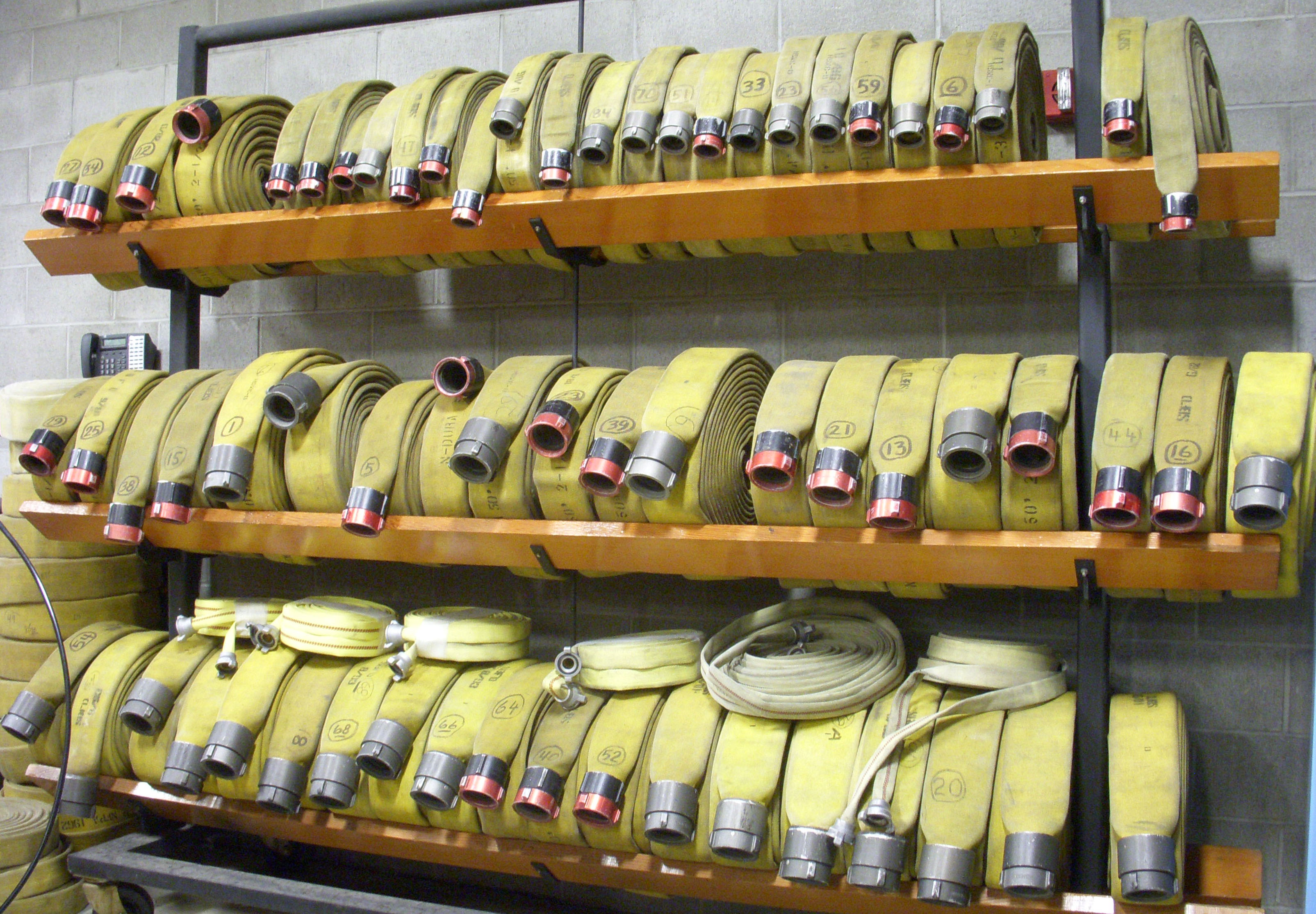 A wheeled rack, storing fire hose in rolls.